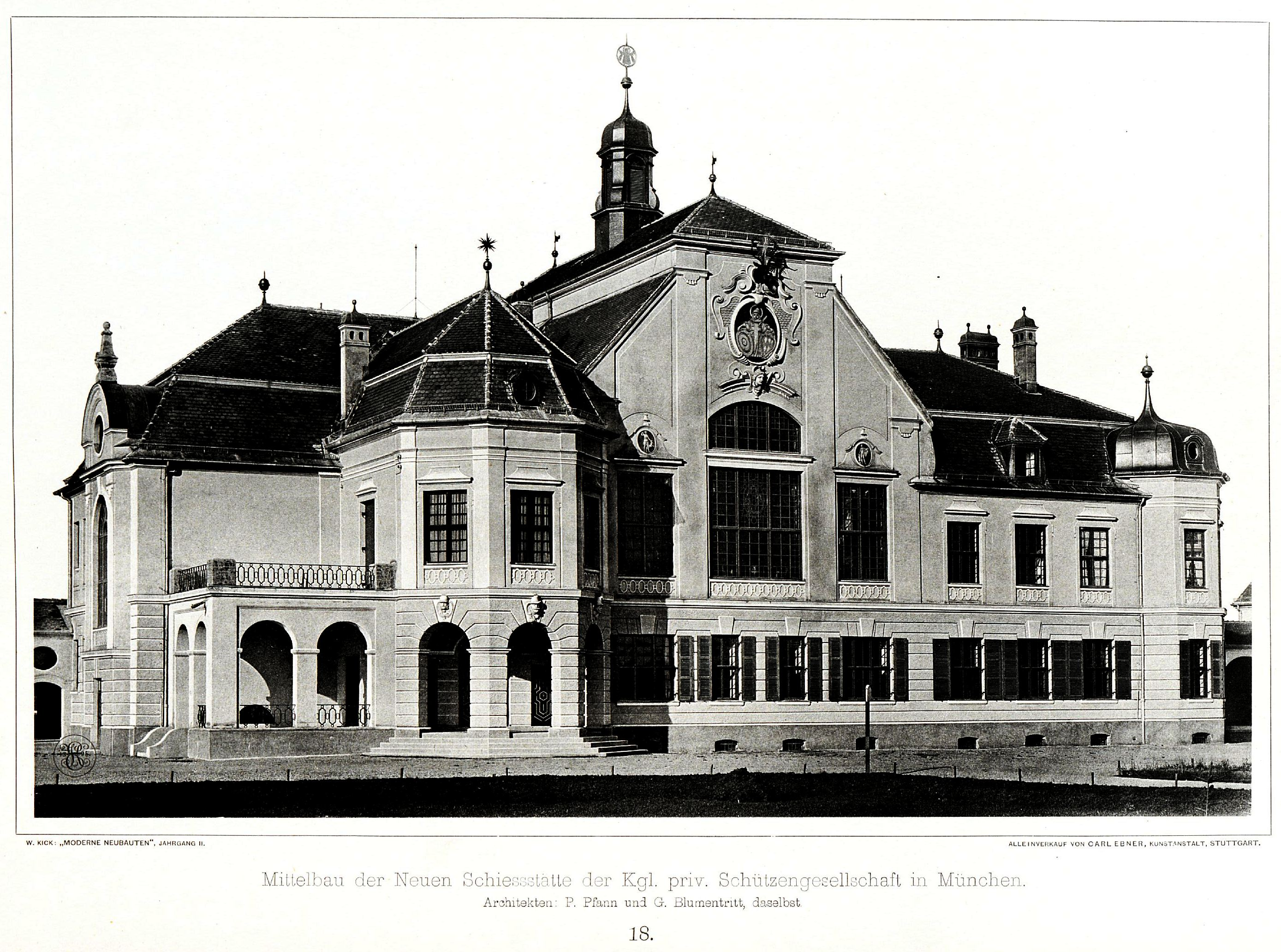 Mittelbau_der_Neuen_Schiessstätte_der_Kgl._priv._Schützengesellschaft_in_München,_Architekten_P._Pfann_und_G._Blumentritt,_Tafel_18,_Kick_Jahrgang_II.jpg